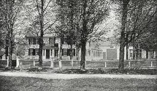 Barrett Mansion, New Ipswich, NH; from "New Ipswich in New Hampshire" by Pauline Carrington Bouve; published 1900, "The New England Magazine," Boston, MA.